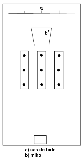 Graphic for Hiru oholtzar